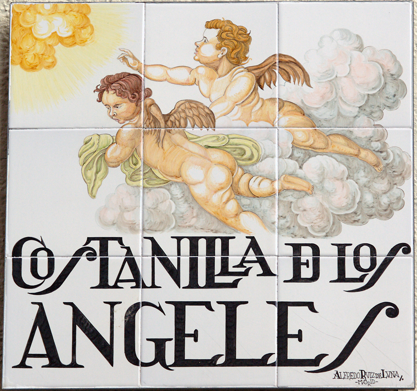 Sign of Costanilla de los Ángeles (street, Centro district) in Madrid (Spain).